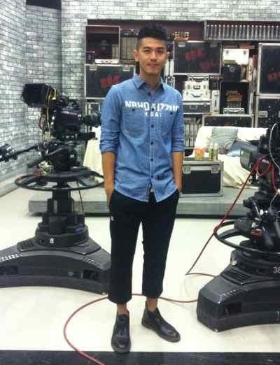 Edward Ma